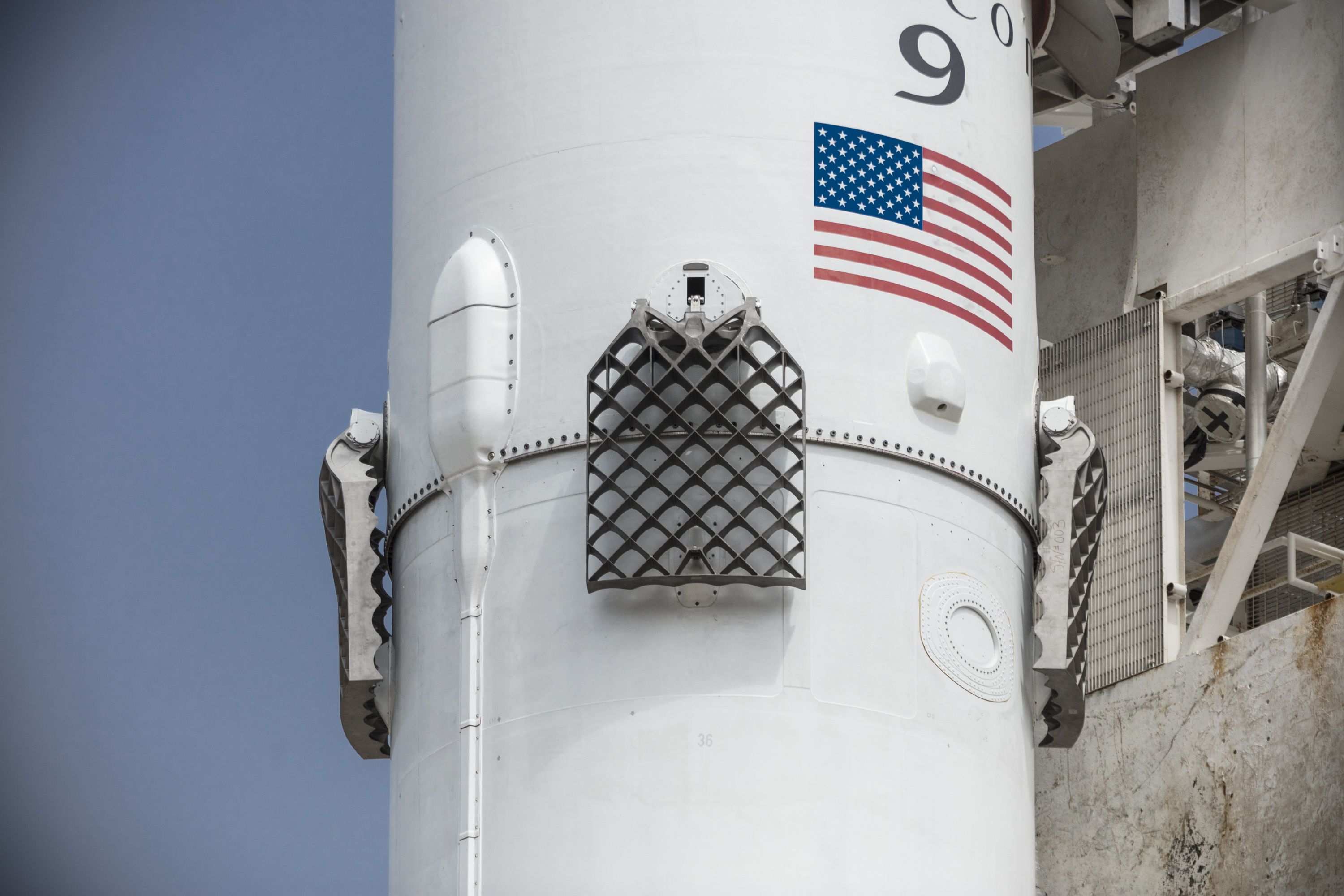 Closeup of SpaceX second-generation grid fins--now larger, made of forged titanium, and not coated with any thermal ablative coating that had been used on the earlier aluminum grid fins--first test flown on the Iridium-2 mission in June 2017.